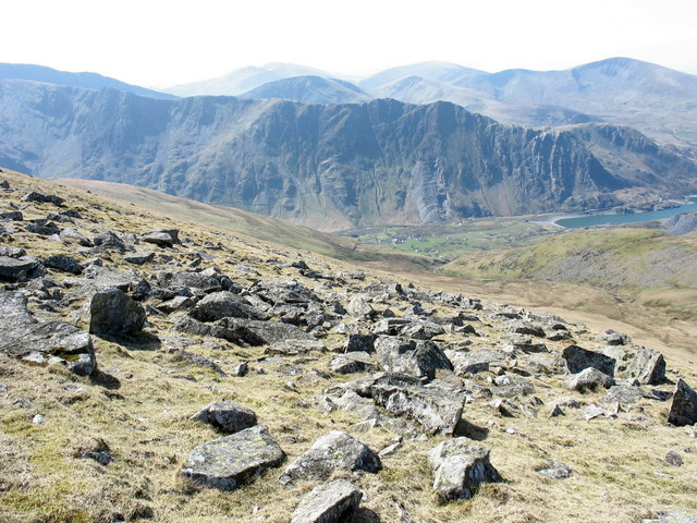 A boulder field on the north-western slope of Y Garn